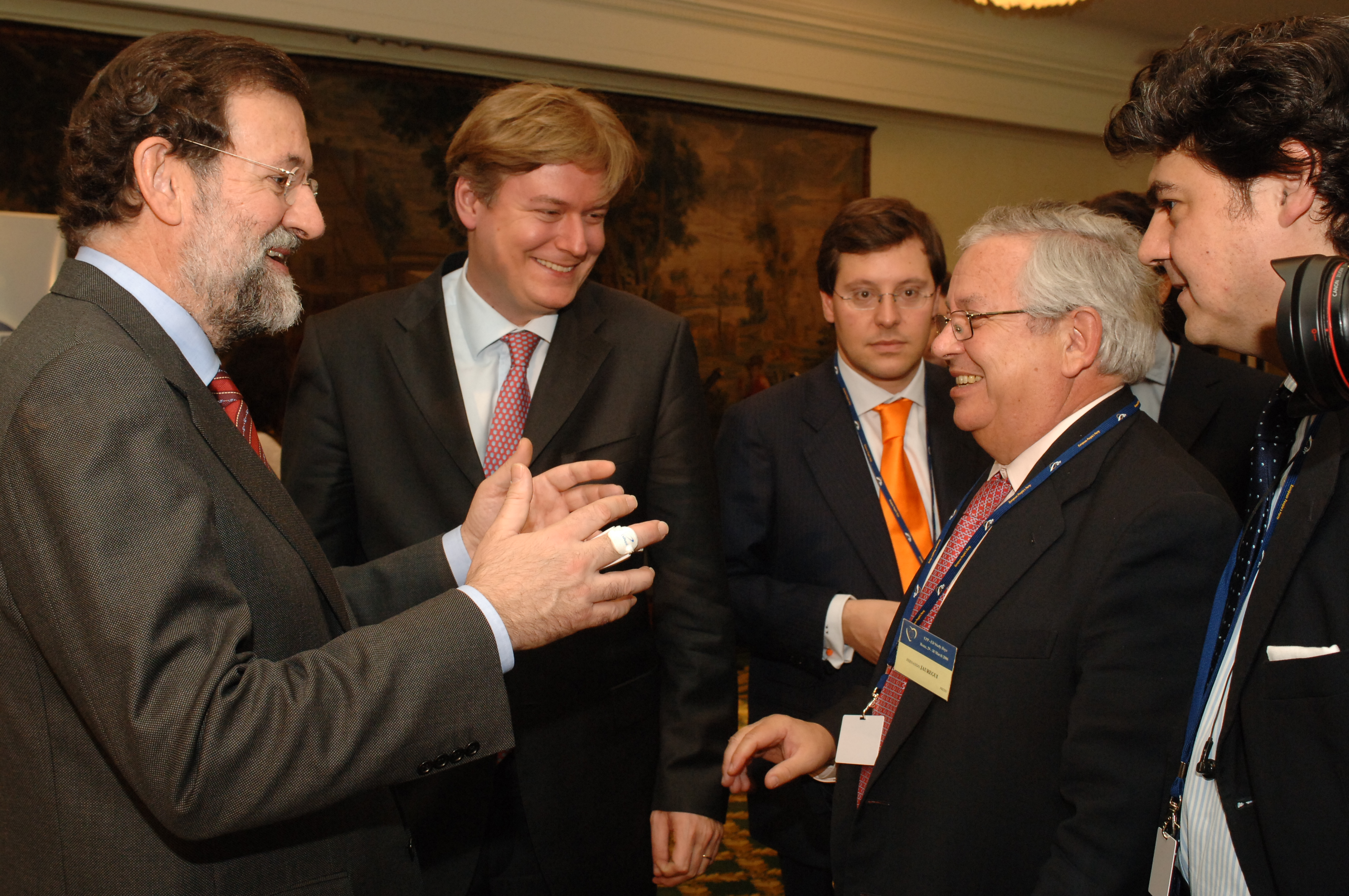 EPP Congress Rome 2006